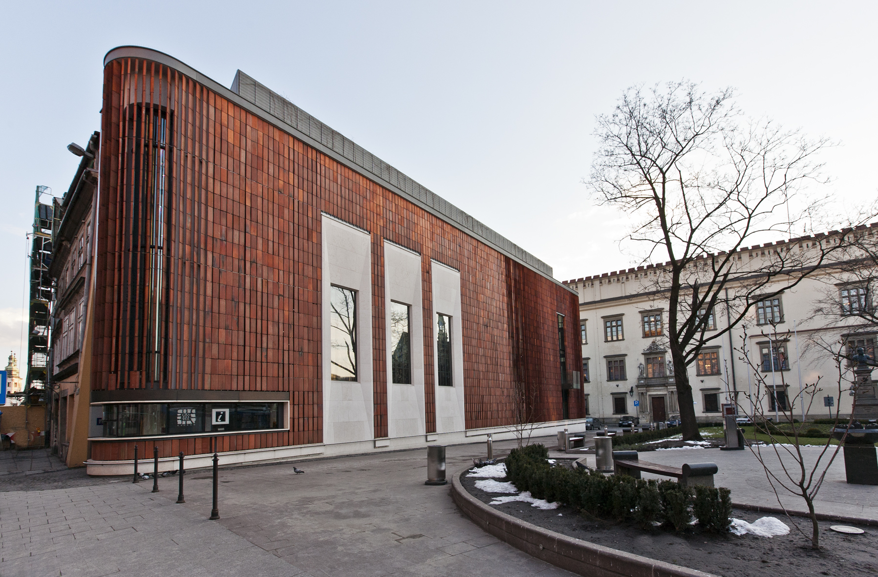 "Wyspianski 2000" pavilion - Krakow Information Centre, architect: Ingarden & Ewy, Krakow , Poland